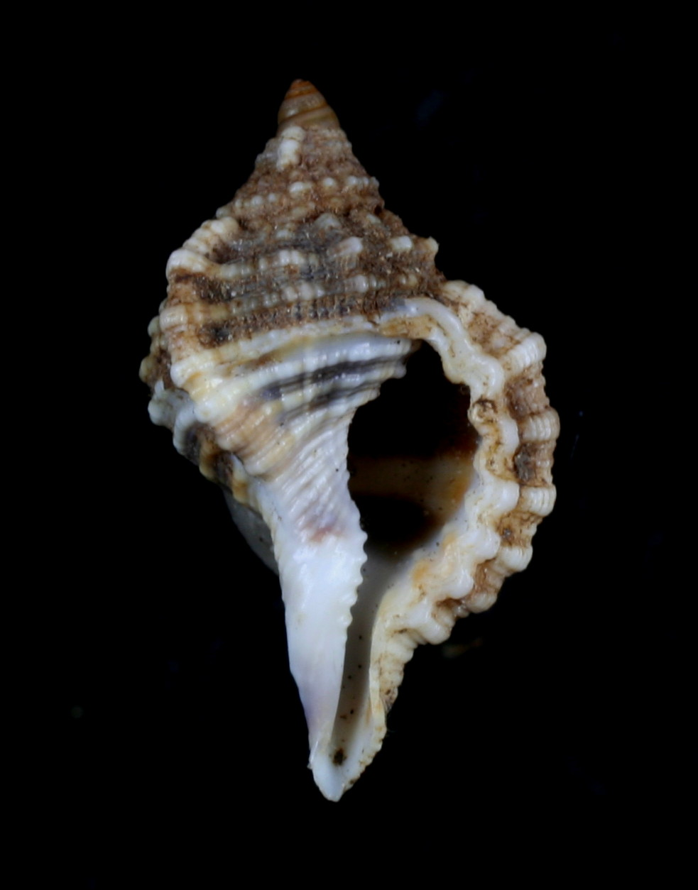 Ranellidae: Gutturnium muricinum (Roding, 1798)